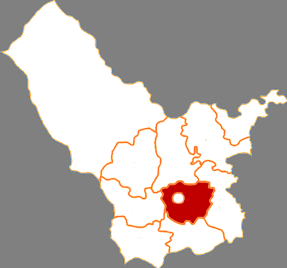 Locator map of Chahar Right Front Banner in Ulanqab City, Inner Mongolia, China